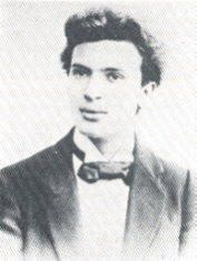 The image of conductor, composer Bruno Walter, ca. 1900